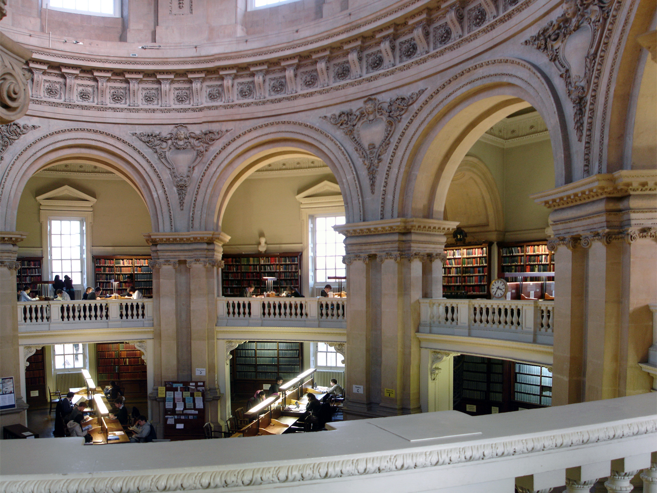 Inside Radcliffe Camera in Oxford; 2nd level gallery